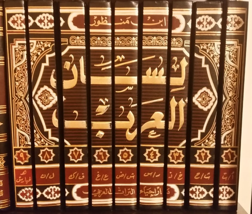 Lisan al Arab is a famous dictionary on the Arabic language by the medieval islamic scholar Ibn Manzur